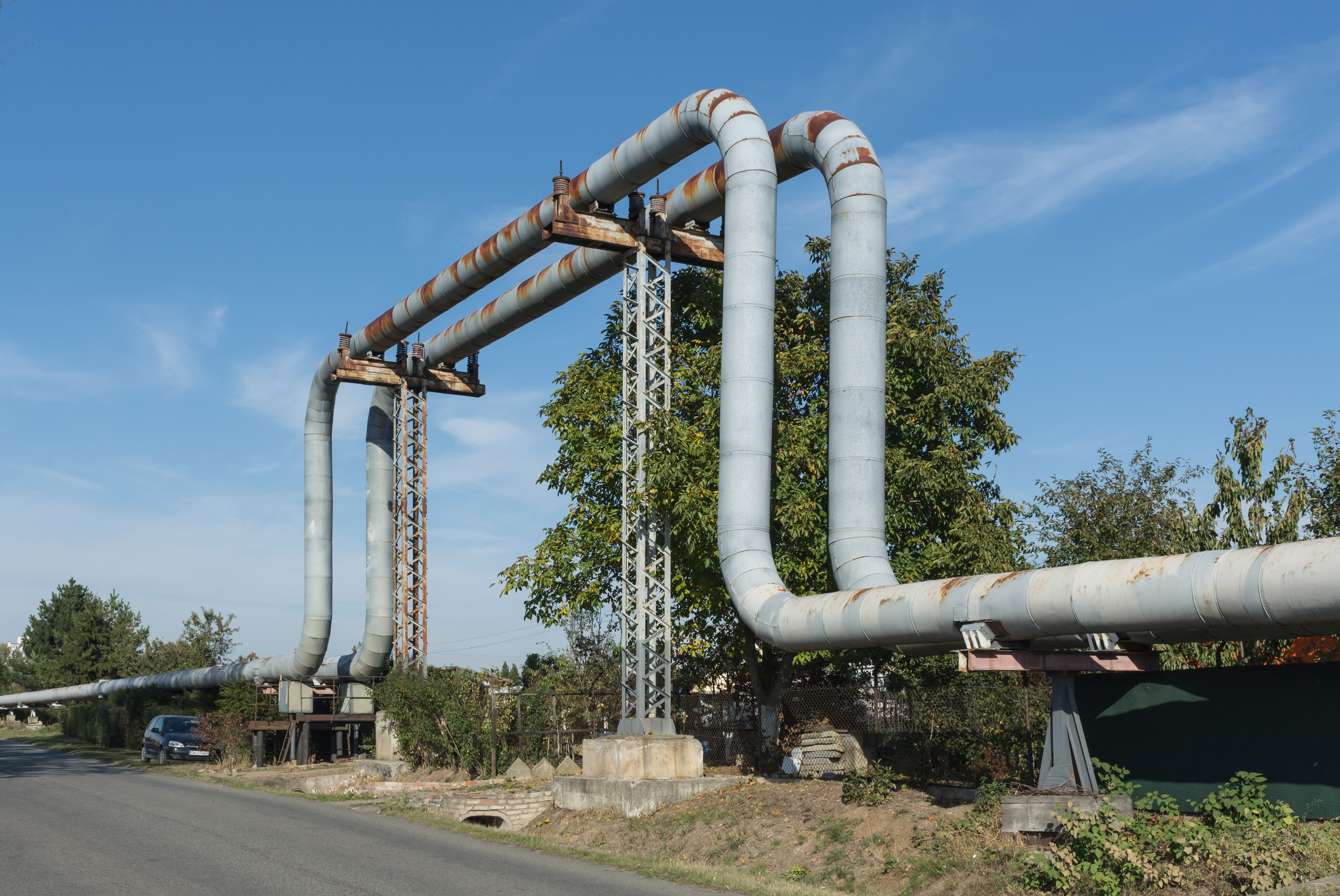 Heating pipeline at Objazdowa Street in Kłodzko